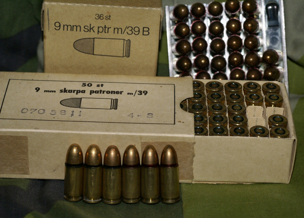 Swedish 9x19 mm M/39 and M/39B with boxes